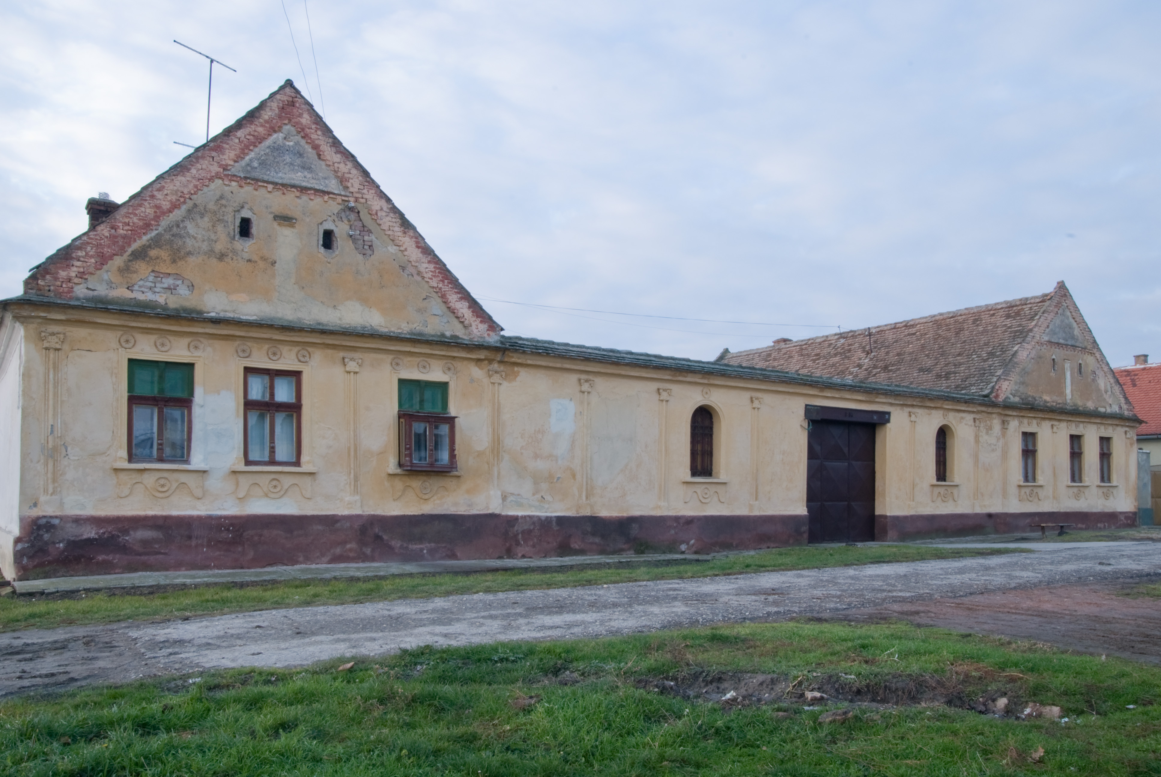 House with garden in Ritiševo, Vršac